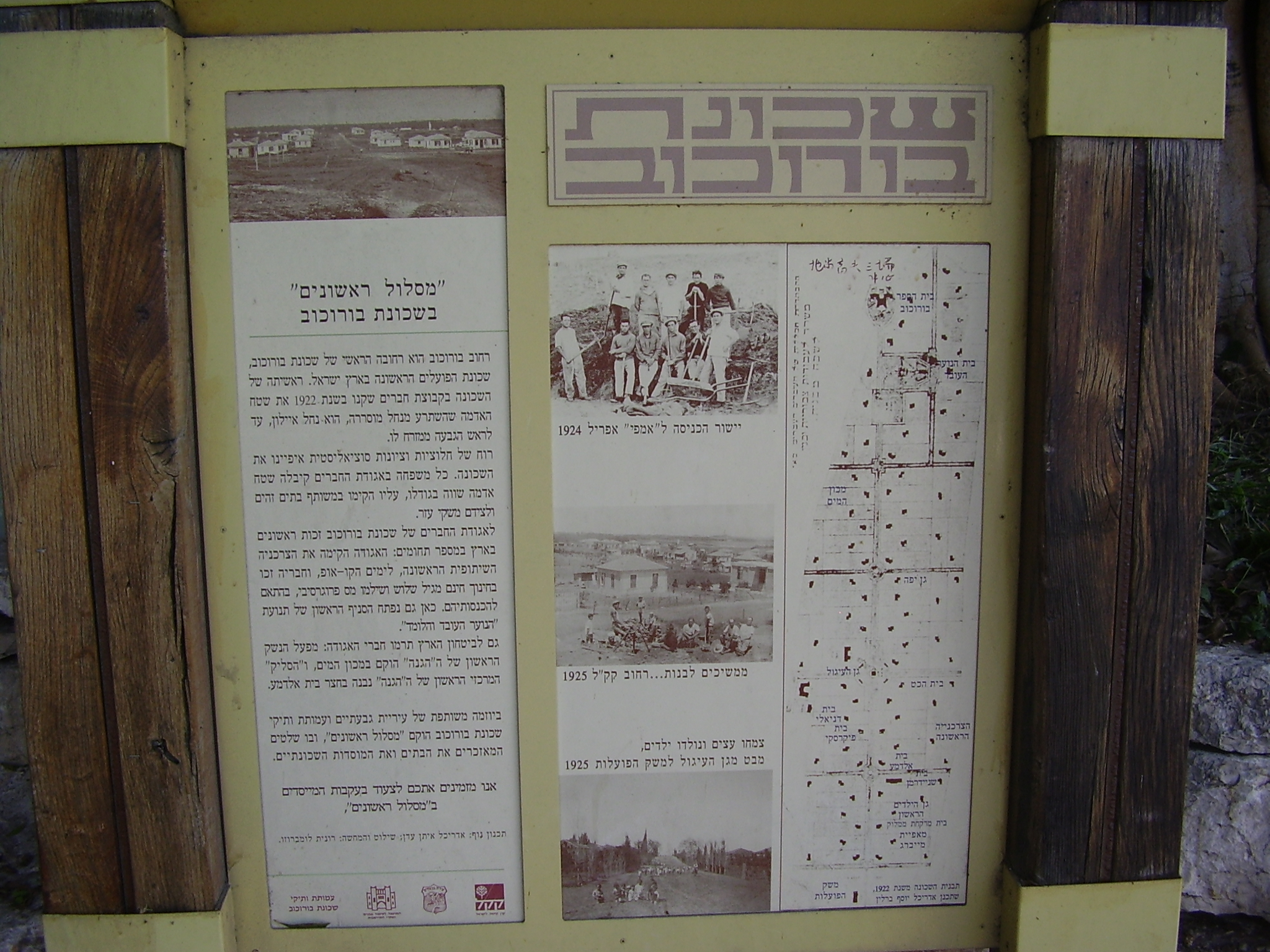 guiding post at the entrance of borochov neighborhood in giv'atayim, israel שלט הסבר בכניסה לשכונת בורוכוב בגבעתיים